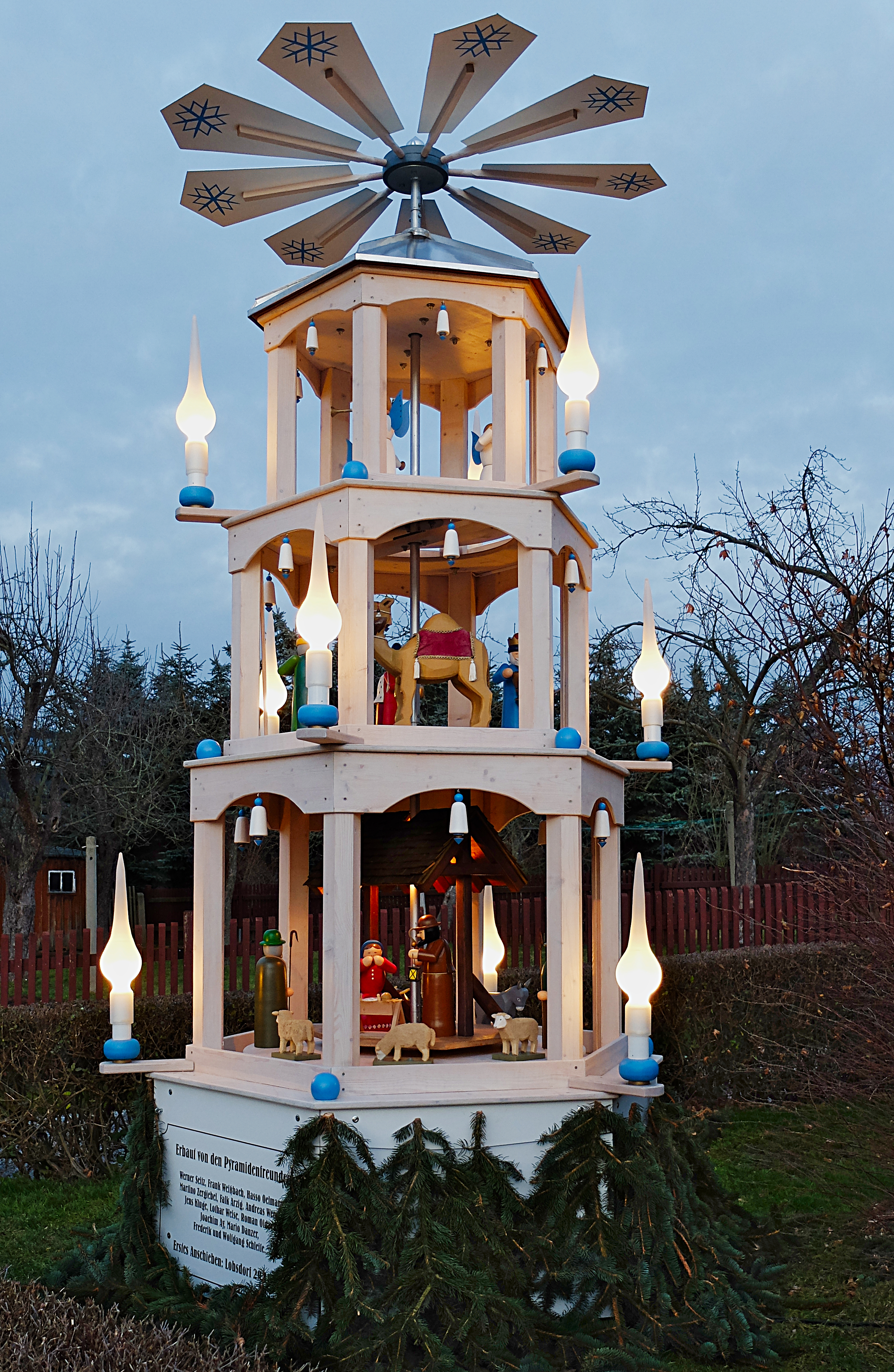 Ortspyramide Lobsdorf (St. Egidien)